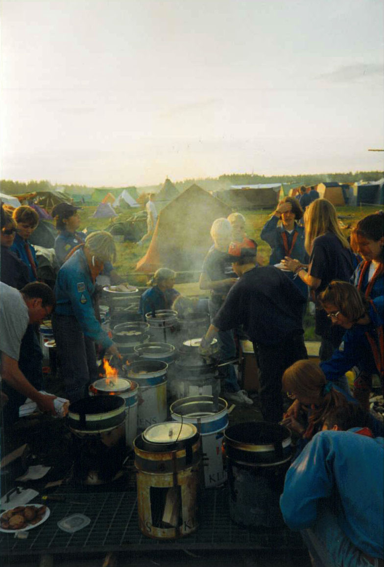 The international scouting camp "Natura 1993" in Västergötland, Sweden 1993. Scouts preparing food.